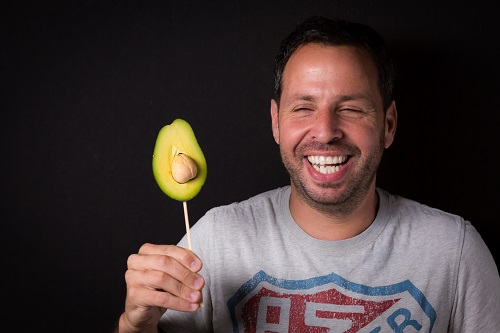 Shahaf Shabtay